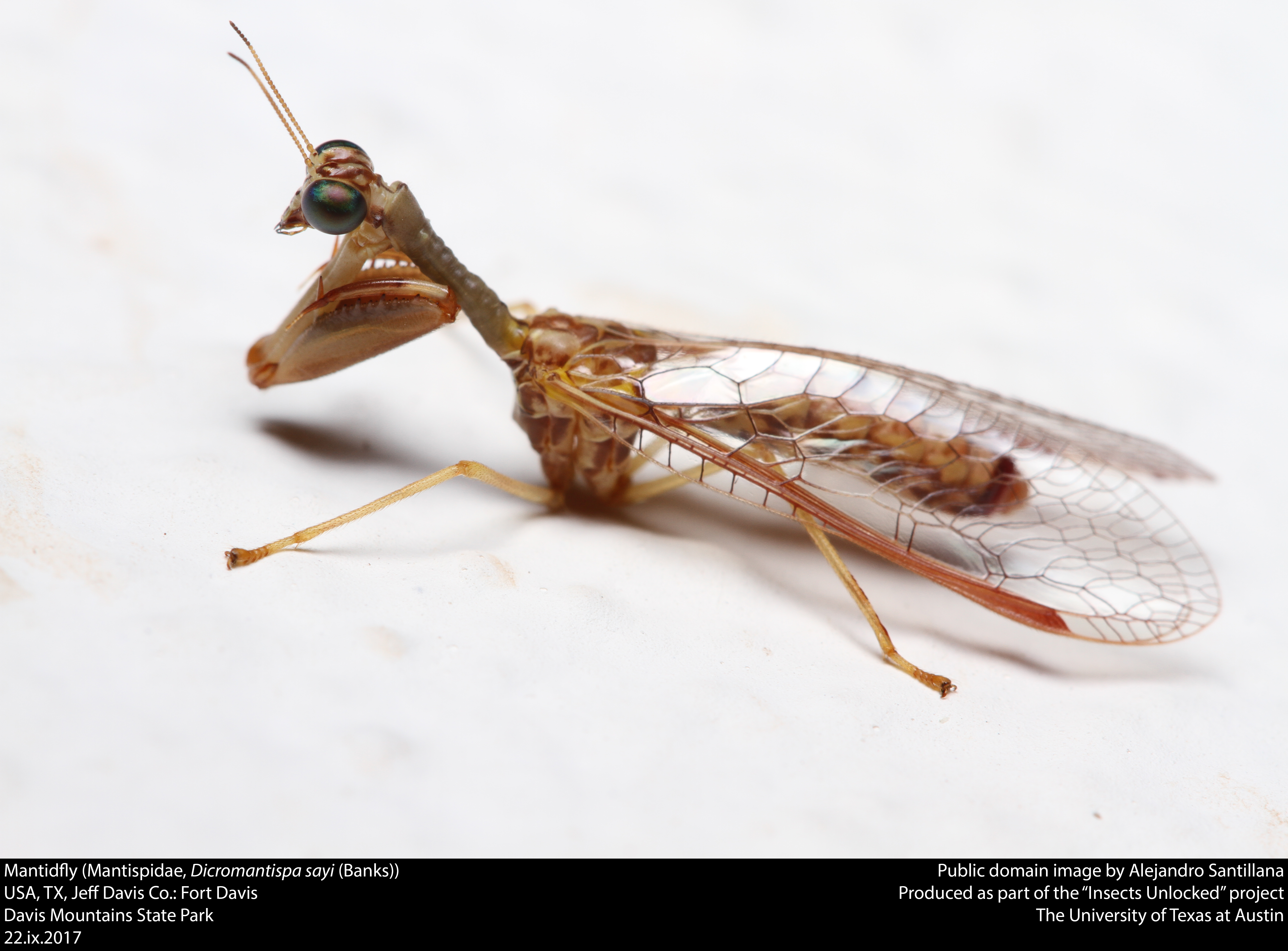 Mantidfly (Mantispidae, Dicromantispa sayi (Banks)) USA, TX, Jeff Davis Co.: Fort Davis Davis Mountains State Park 22.ix.2017 This image was created as part of the Insects Unlocked project at the University of Texas at Austin. Based in the UT insect collection at Brackenridge Field Laboratory, part of the Department of Integrative Biology. Do not crop: This image is used on one or more sister projects, where its entire contents are wanted. If you crop it, please save the new image separately, and do not overwrite this one.